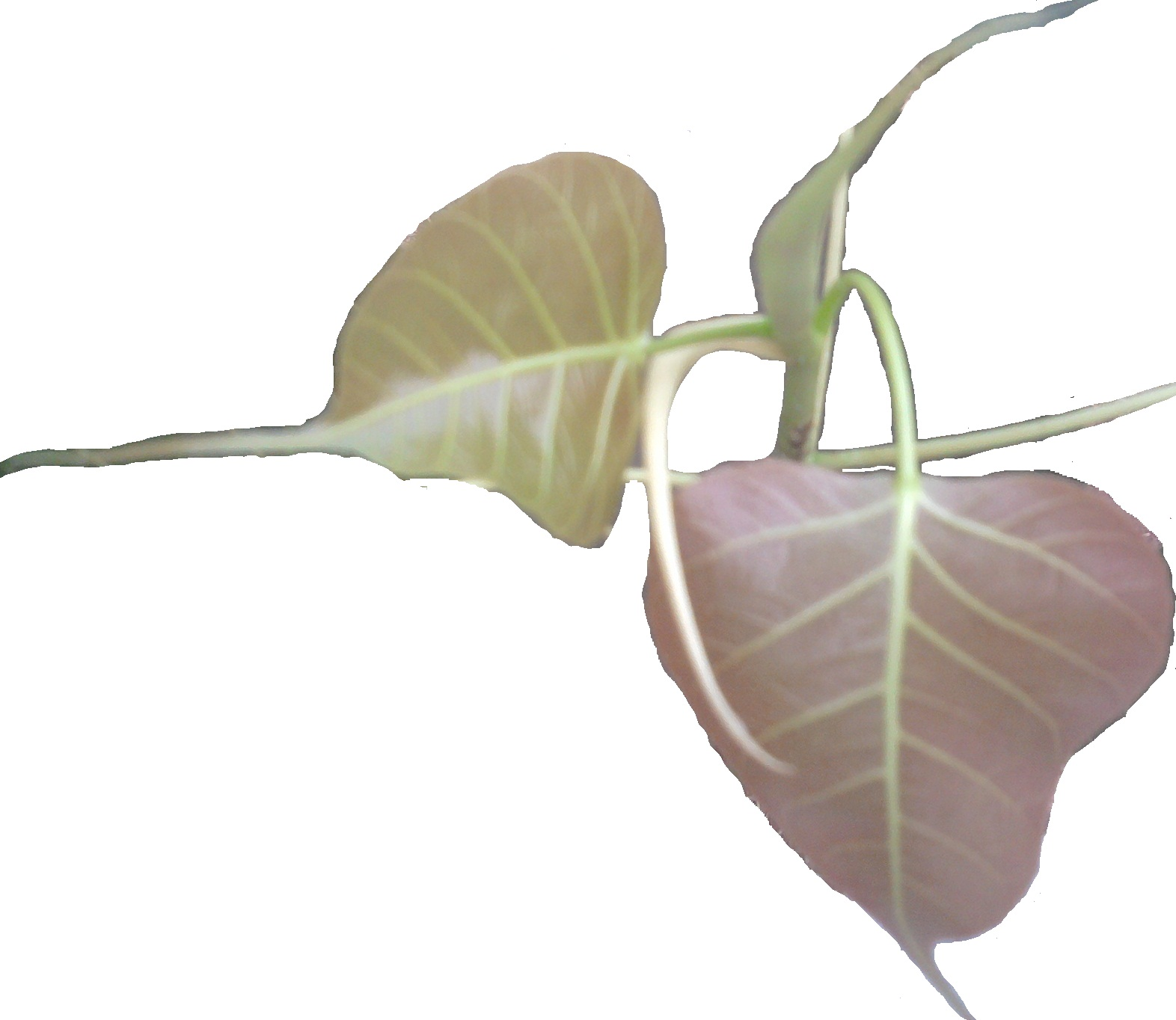 Ficus religiosa leaves